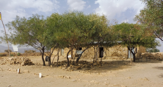 Zerfenti school 3